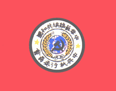 Flag of the Chinese Soviet Republic Central Executive Committee Bân-lâm-gú: 中華蘇維埃共和國中央執行委員會的旗仔 / Tiong-hôa Soviet Kiōng-hô-kok Tiong-iang Chip-hâng Úi-ôan-hōe ê kî-á